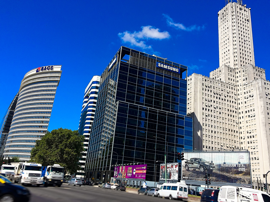 View of Eduardo Madero Avenue from the Córdoba Avenue intersection, Buenos Aires. From left: the República, Fortabat, Bouchard 710, and Alas buildings.